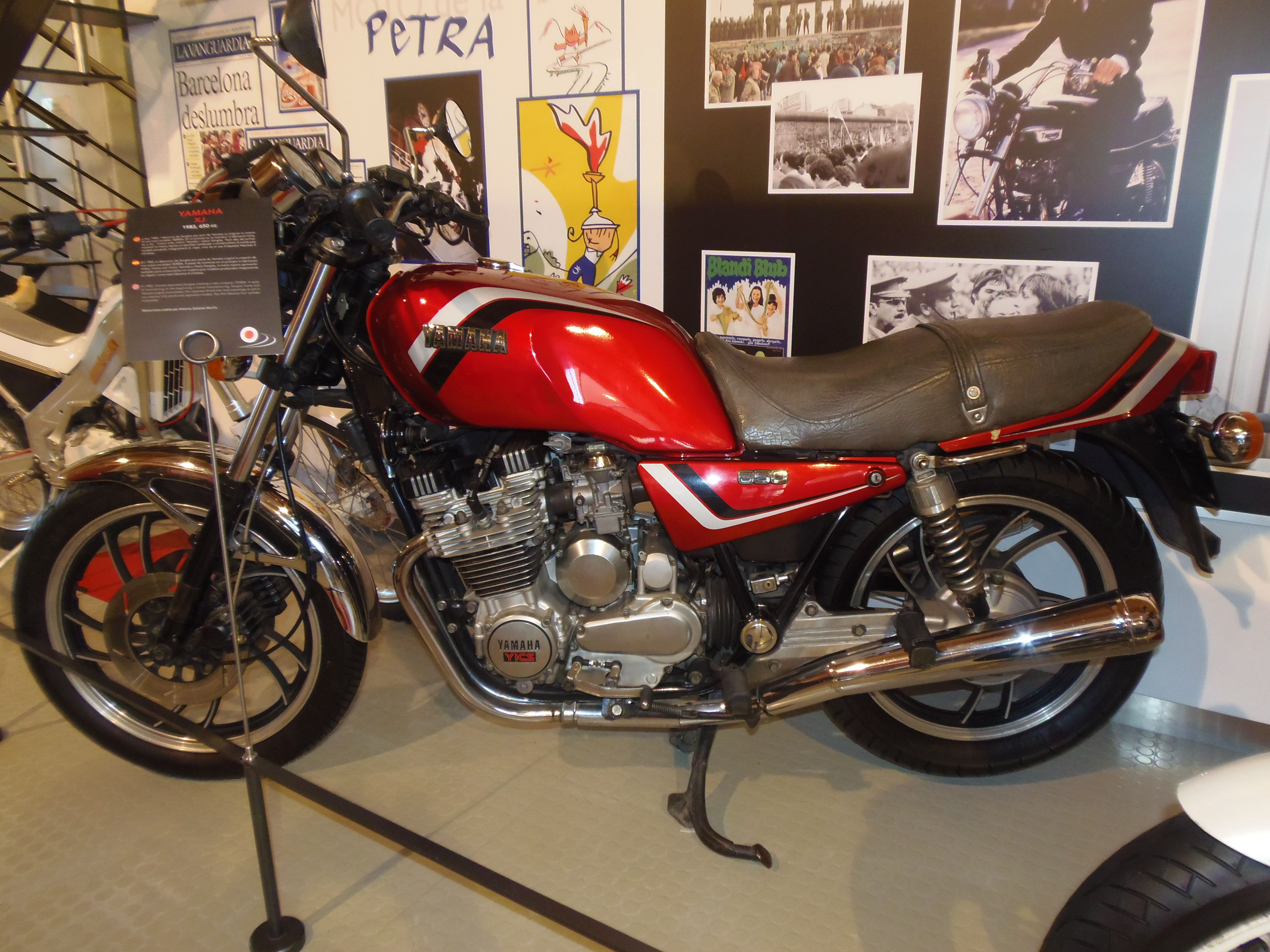 Yamaha XJ 650, 1983